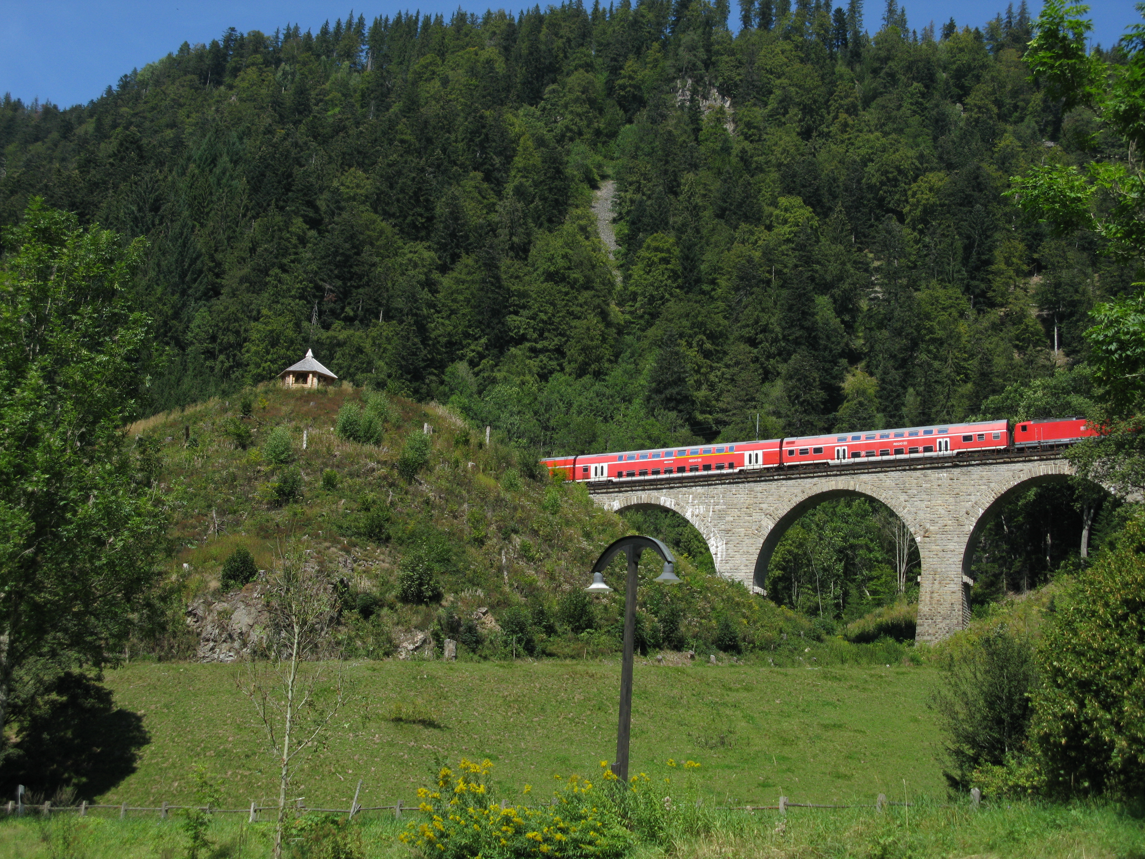 Ravennabridge with Galgenbühl and Höllentalbahn